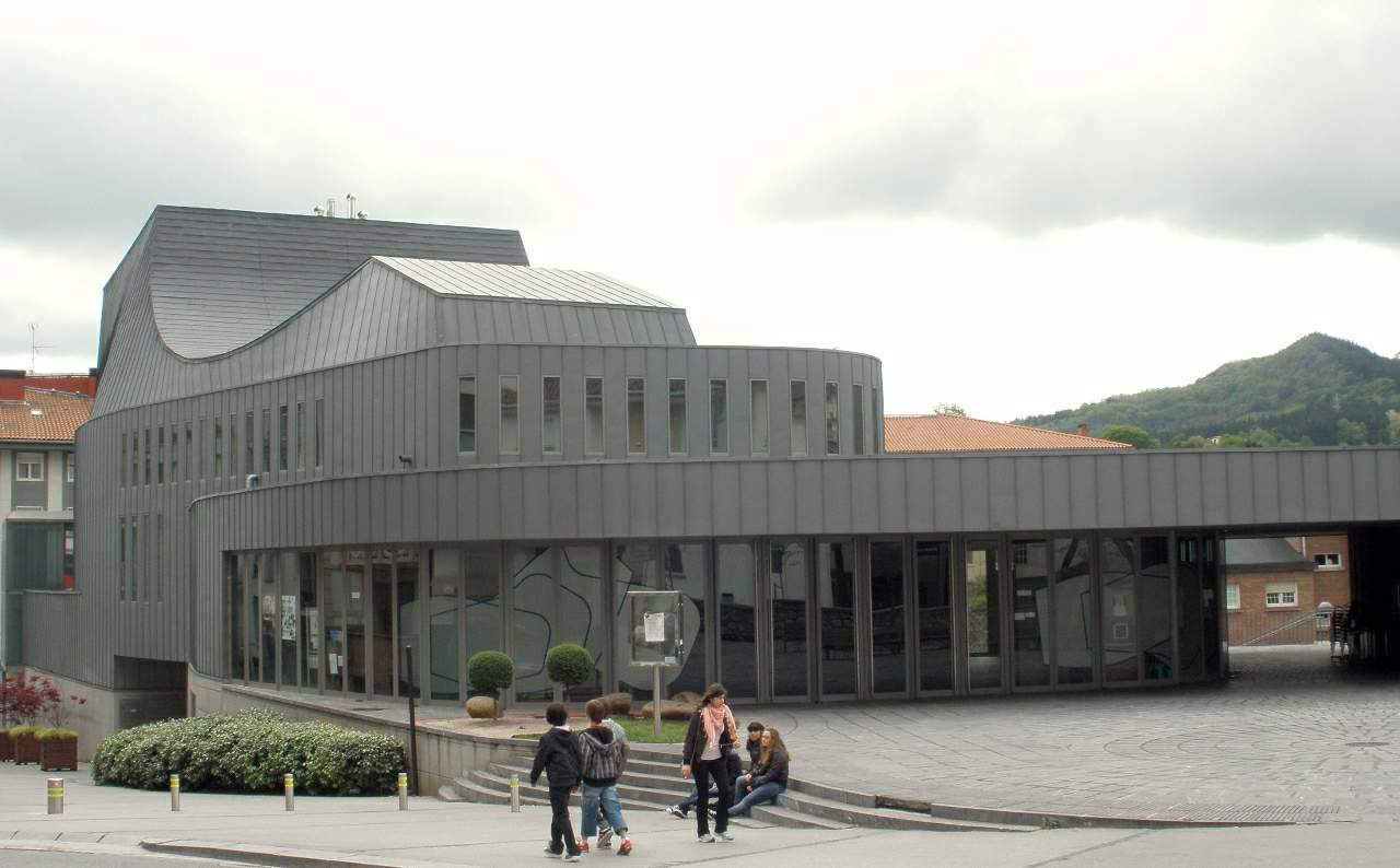 Andoain (Guipúzcoa)